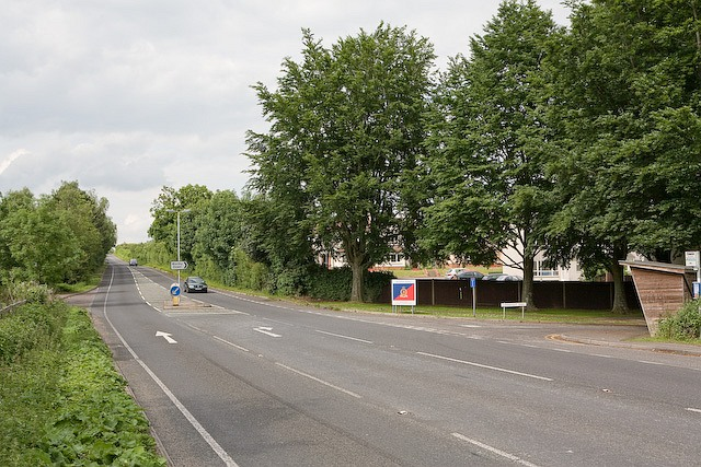 Entrance to Worthy Down Camp Worthy Down Camp is the headquarters of the Adjutant General's Corps. The turning on the right is Connaught Road which is also a bridleway. When I got here, having walked a considerable distance by an indirect route from Littleton, I realised I was in a sterile area with nearly a kilometre of busy road in each direction with no footway and next to no verge. Luckily, it was only two minutes until the hourly bus service to Winchester.